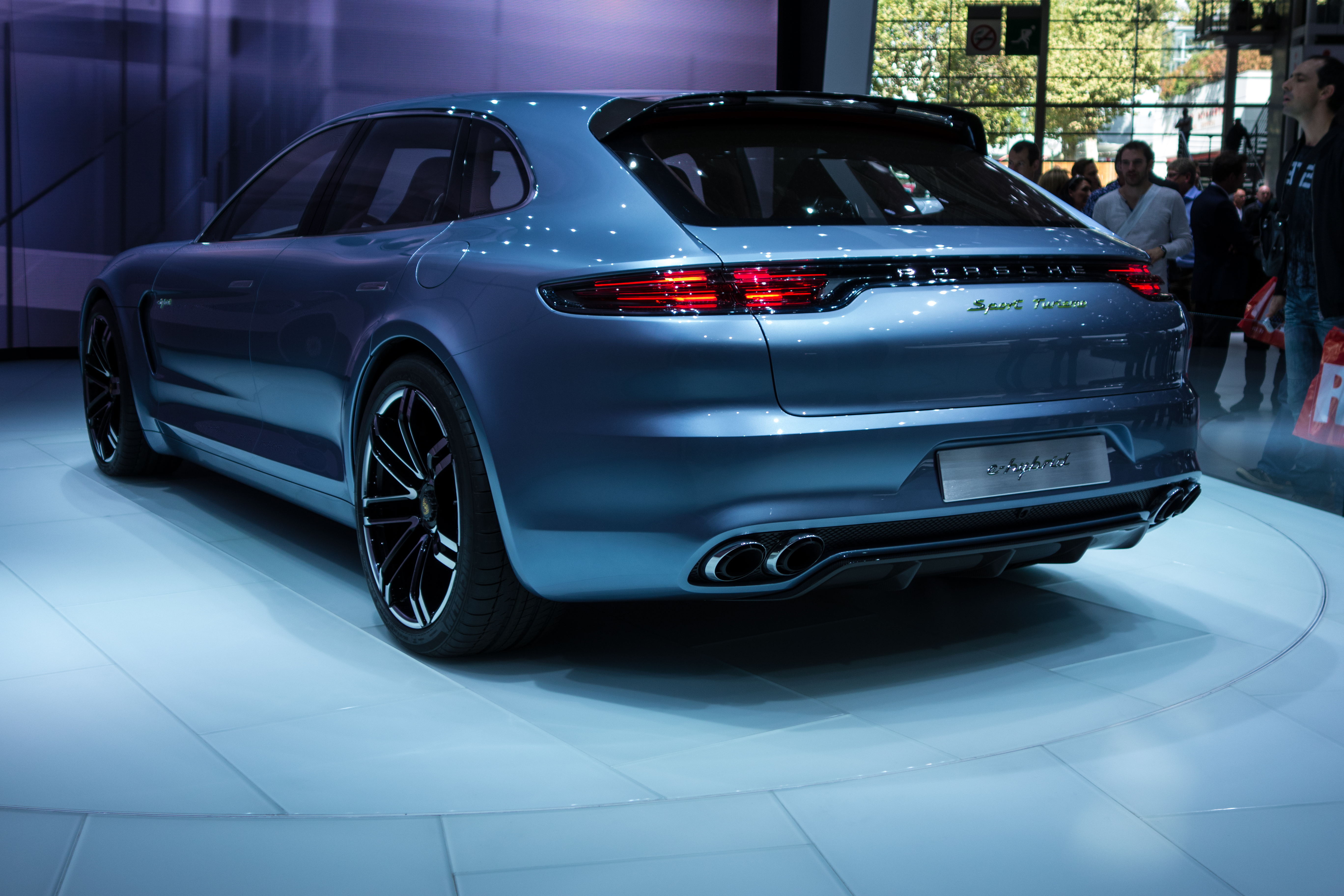 Mondial De L'automobile Paris 2012 | Paris Motor Show 2012